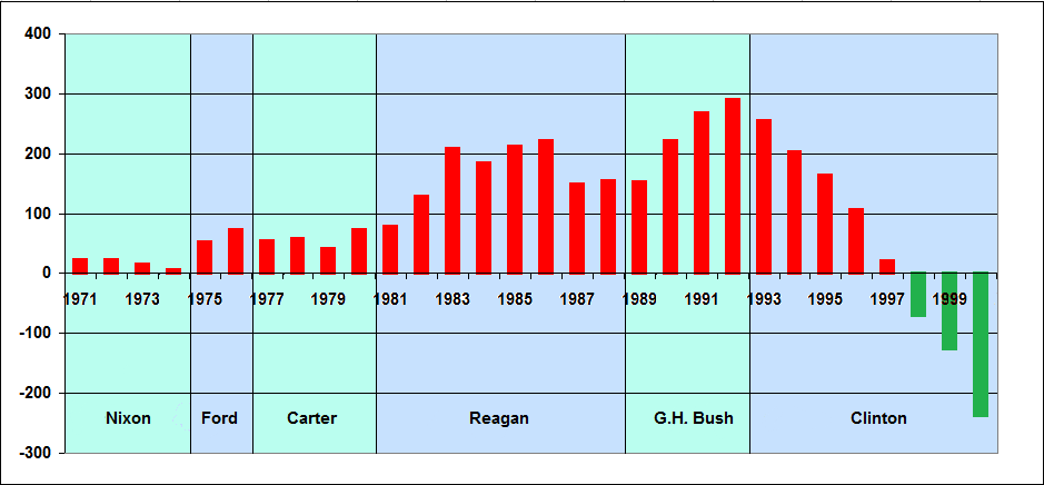 US Budget Deficit of 1971 to 2001 in Billions of Dollars. Source: Table E-11